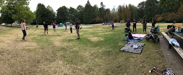 Players compete in round 1 of the 2020 Wile Cup croquet championship in Surrey, BC